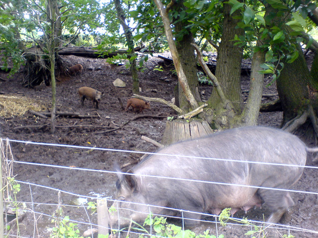 Iron Age pigs Some Iron Age pigs and piglets that look very good for their age, it must be said. Part of Farm Park. Iron Age pigs are a cross between Tamworth pigs and Wild Boar.